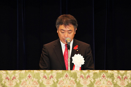 Mitsuru Sakurai, Senior Vice-Minister of Health, Labour and Welfare, attended the commendation ceremony at the Central Government Building No.5 in Chiyoda Ward, Tōkyō Metropolis on October 26, 2012. (For terms of use, see 利用規約｜厚生労働省.)